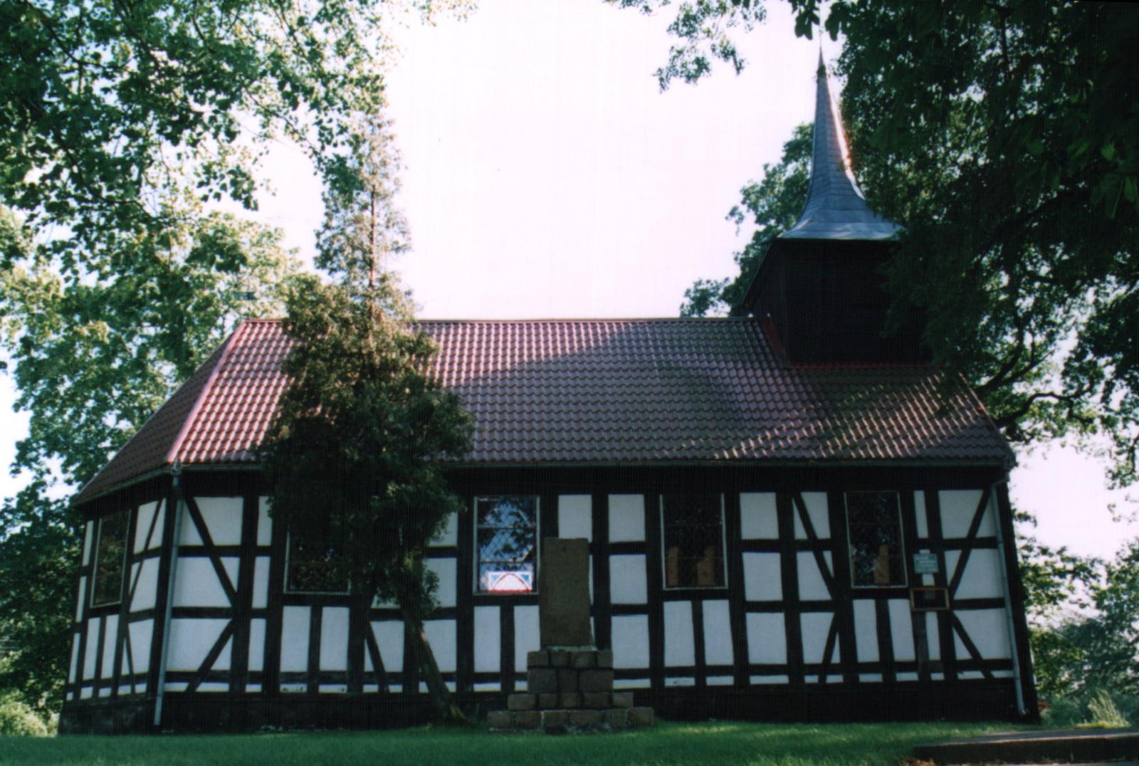 Church of Saint Mary in Bukowina, Poland